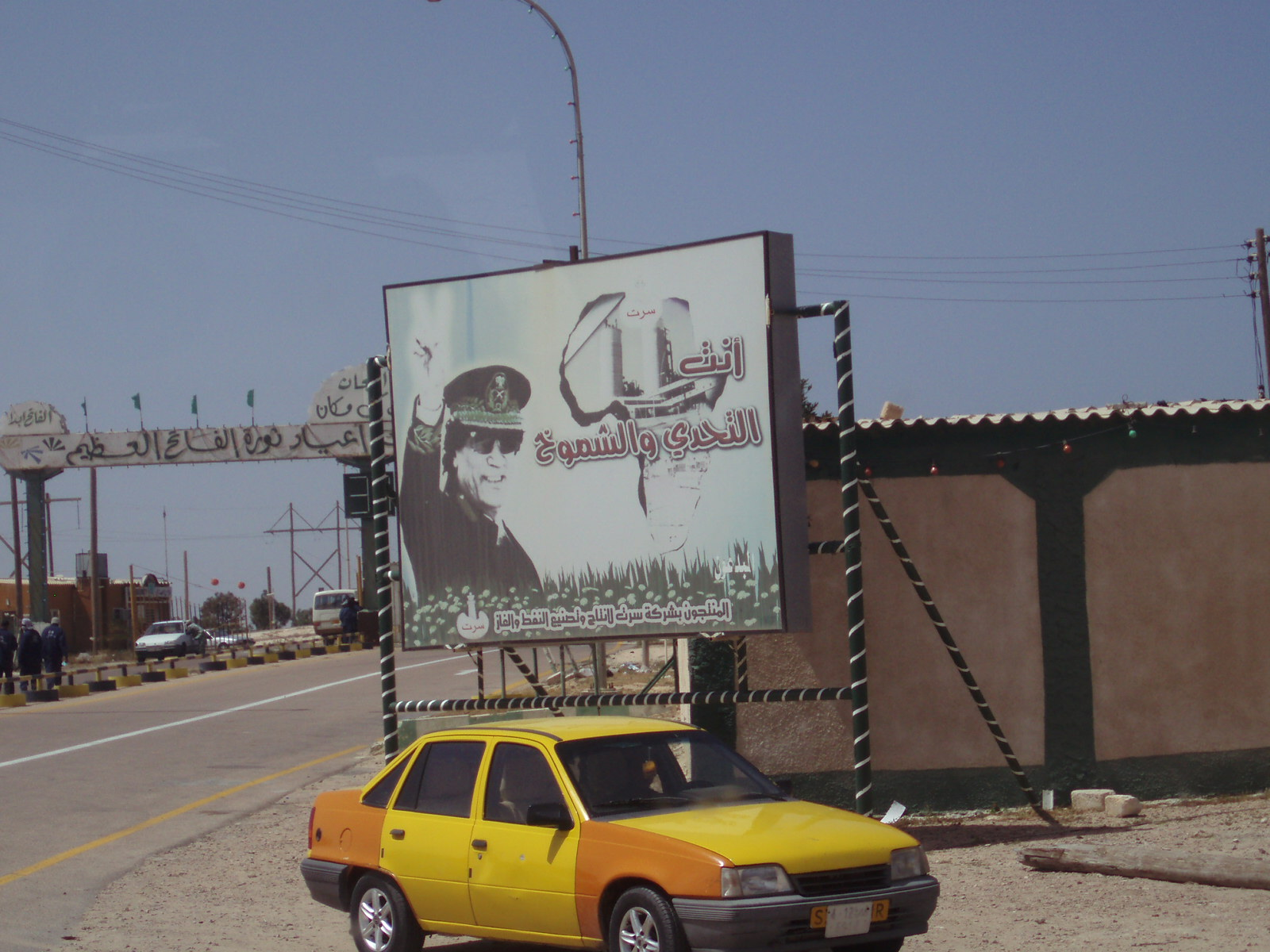 Muammar Gaddafi road poster near a Libyan frontier. 4 April 2007.